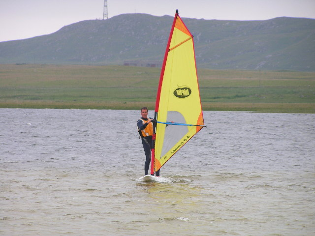 Windsurfing on Loch Bhasapoli, Tiree.